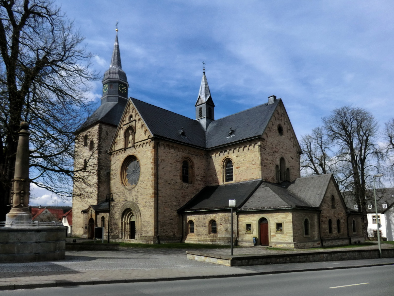 Q1424784 Native nameSt. NikolausLocationBüren, GermanyCoordinates51° 33′ 11.88″ N, 8° 33′ 33.59″ E Authority control : Q1424784 institution QS:P195,Q1424784